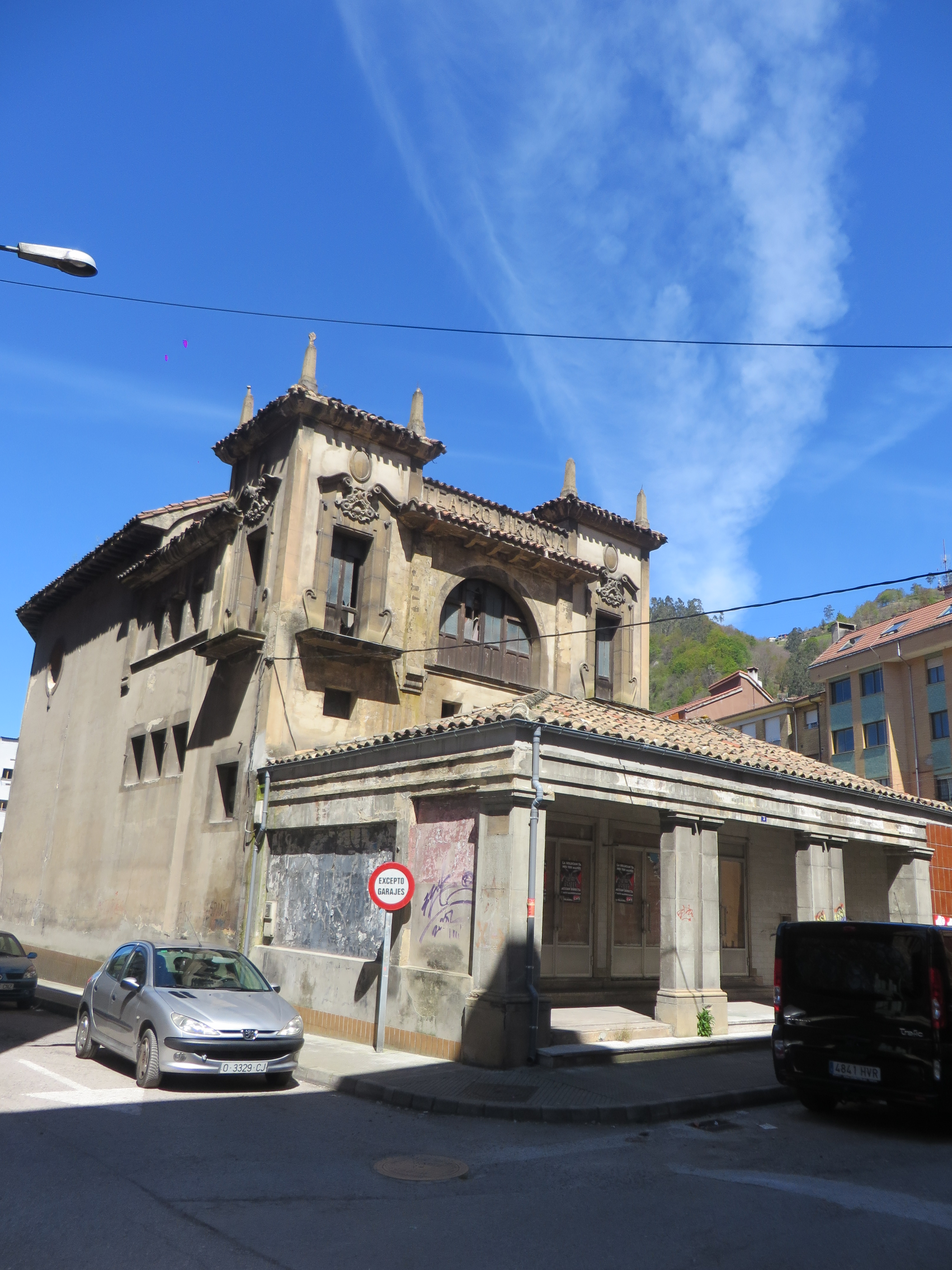 Teatro abandonado en Sotrondio, Asturias.